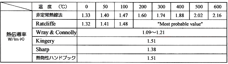 Comparison of the thermal conductivity of transparent quartz glass